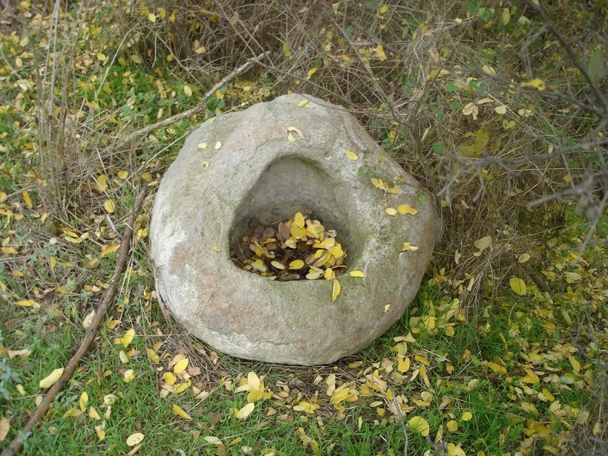 Carved stone on the archeological site supposedly of the ancient city Tranupara, near Konjuh, Macedonia